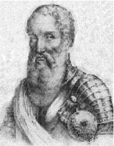 Jan Tarnowski